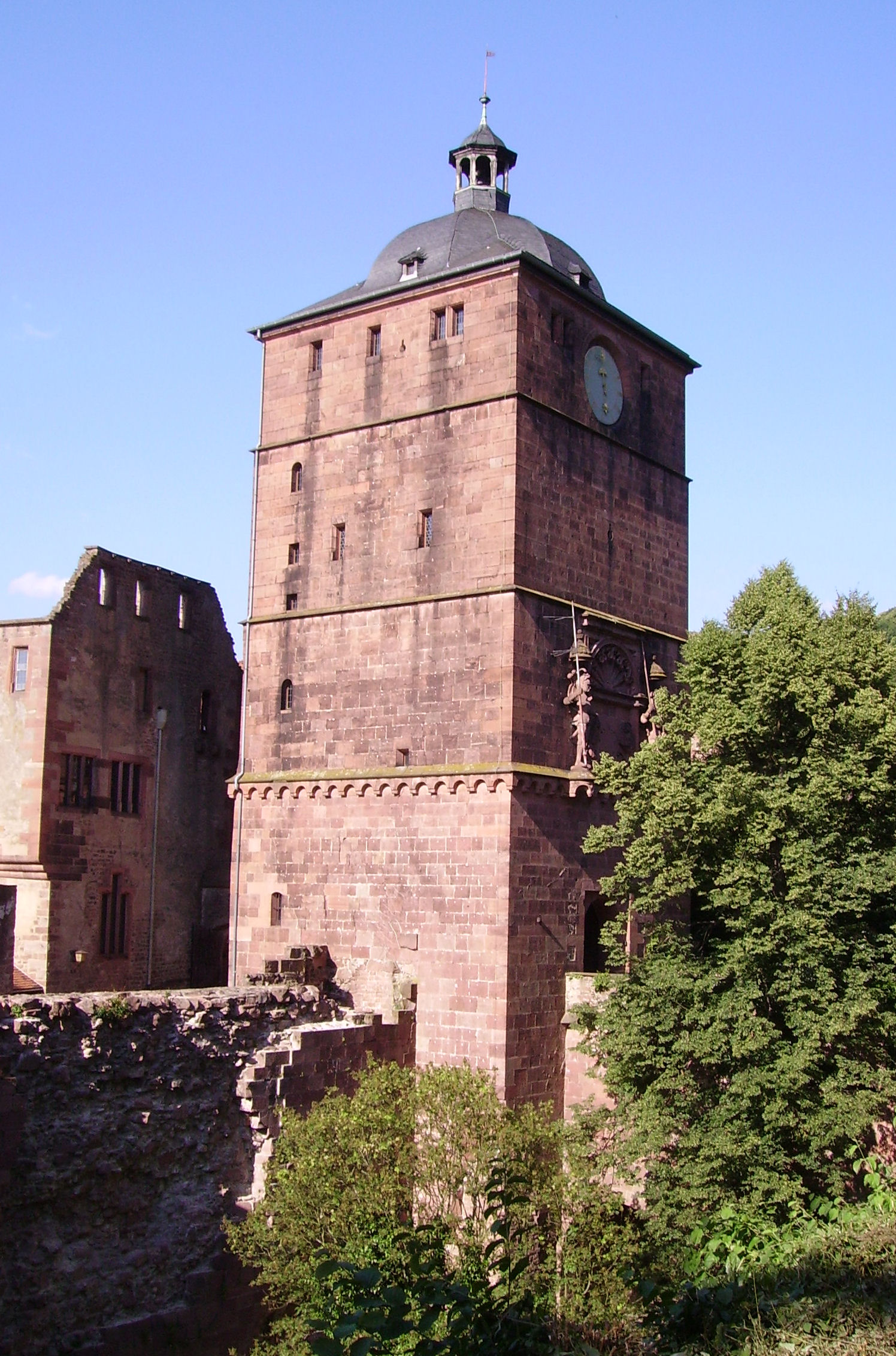 part of Heidelberg castle (Heidelberger Schloss)